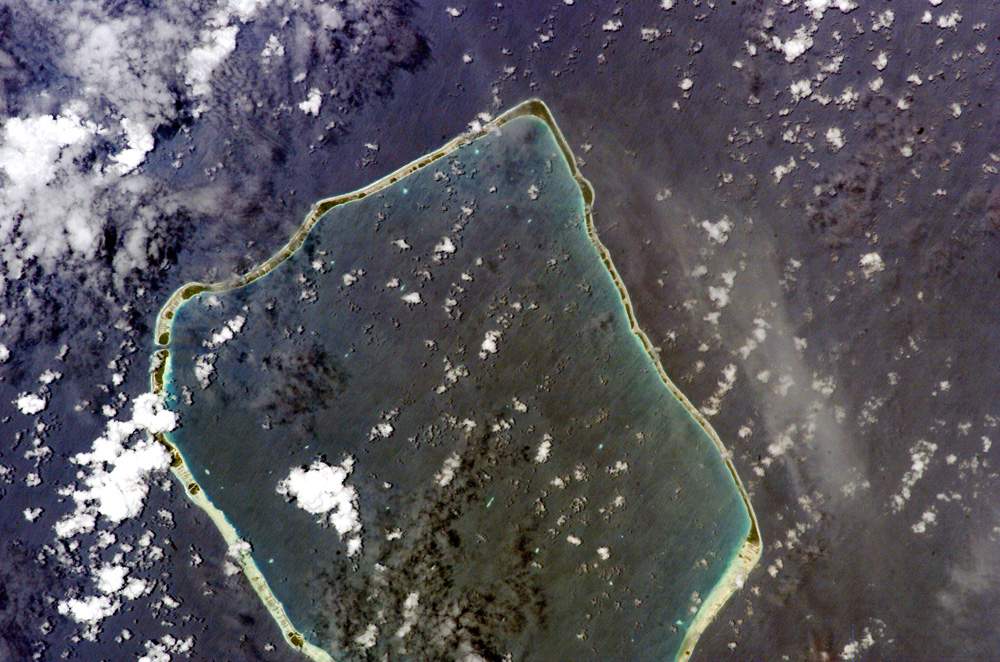 Photo of Apataki atoll in the Pacific Ocean, part of French Polynesia. North is to the upper left. Image acquired from the EarthKAM payload onboard the International Space Station (ISS).